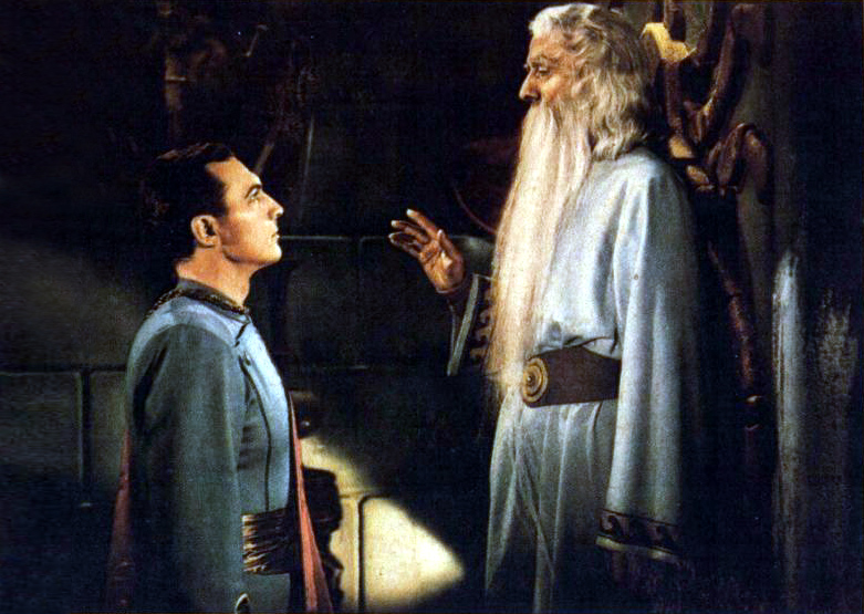 Tom Tyler (left) & Nigel De Brulier in Adventures of Captain Marvel, Chapter 1 Curse of the Scorpion - promotional poster